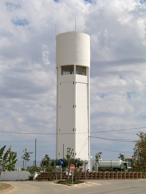 Water tower in Algarve, Portugal. Photography by: Osvaldo Gago